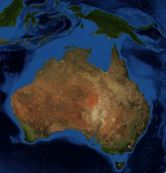 This is an image of Australia & New Guinea from space, made with NASA's World Wind software using Landsat 7 data.